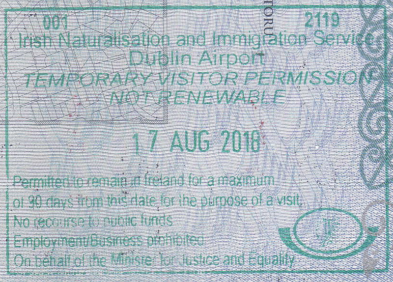 Ireland Immigration Entry Stamp